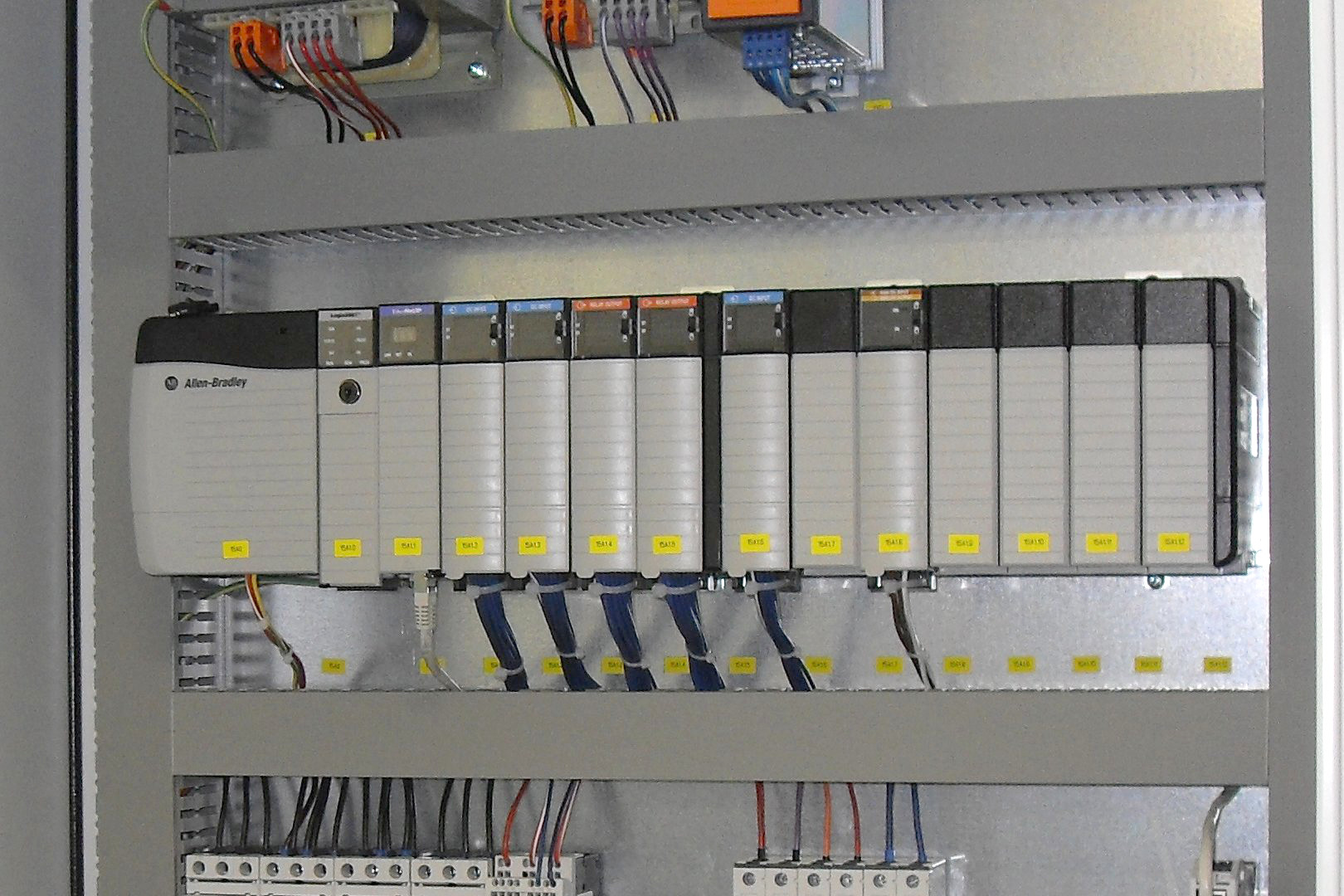 Allen Bradley PLC for a sugar centrifugal installed in a control panel (BMA Automation GmbH)